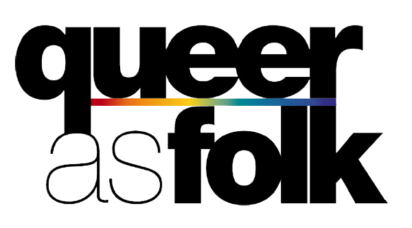 From "Queer As Folk".